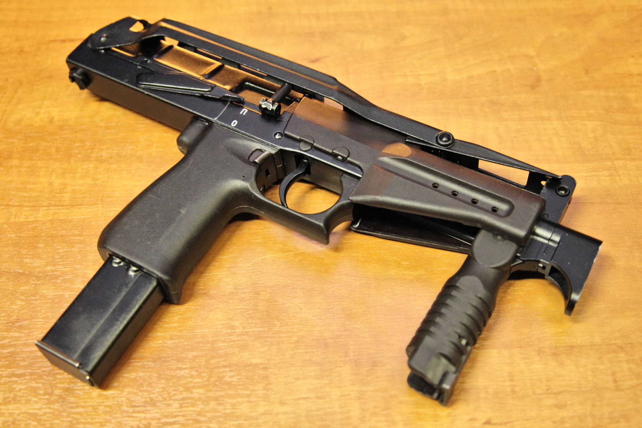 SR-2M Veresk of the Moscow OMON.